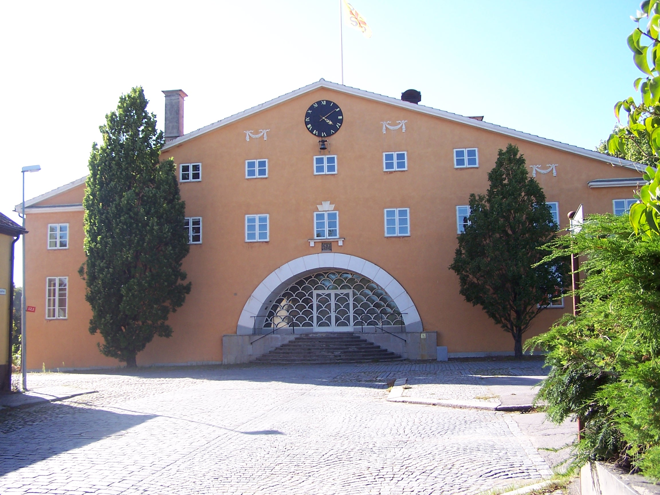 Courthouse of Lister hundred, Sölvesborg, Sweden